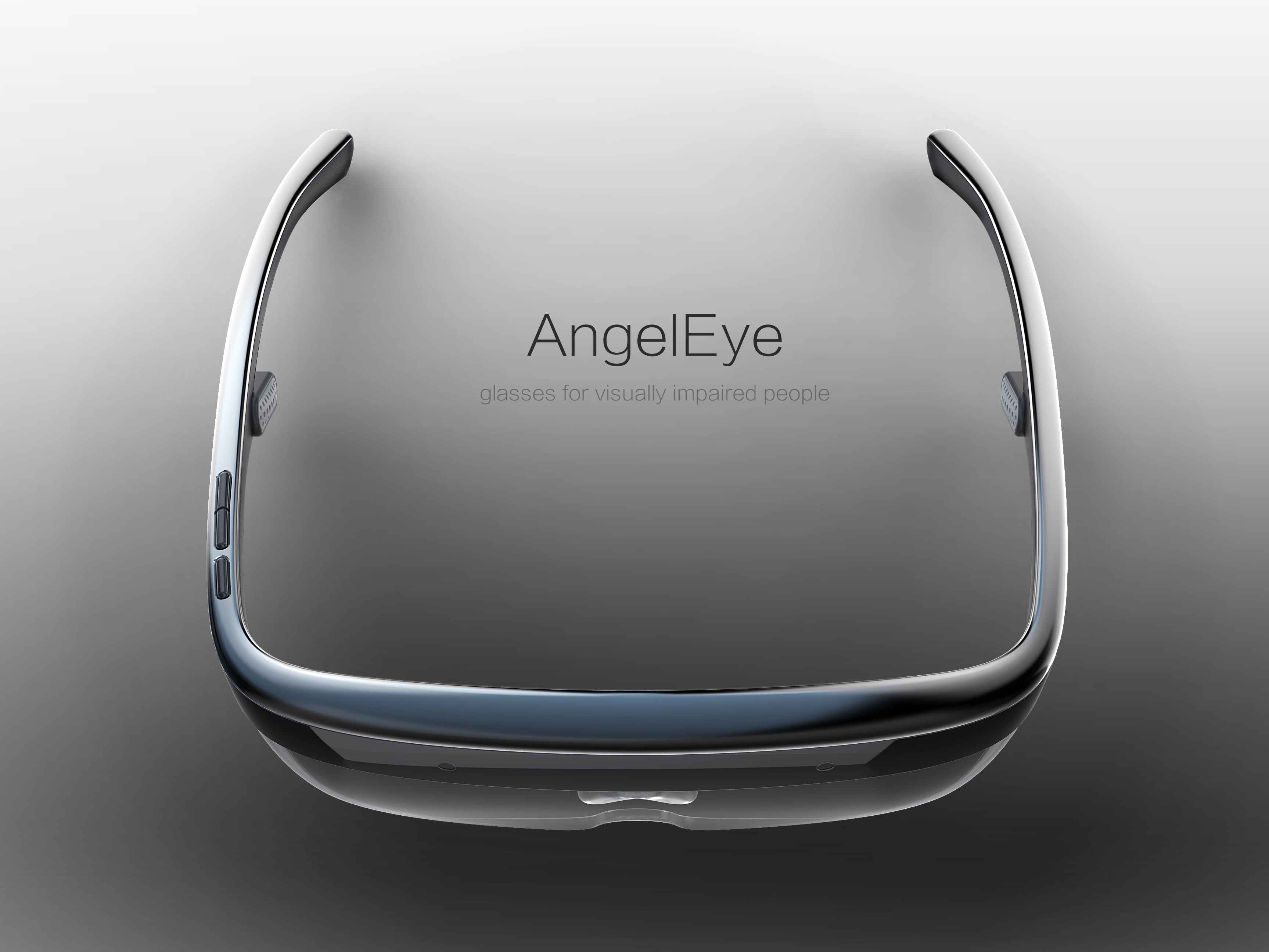 AngelEye Smartglasses